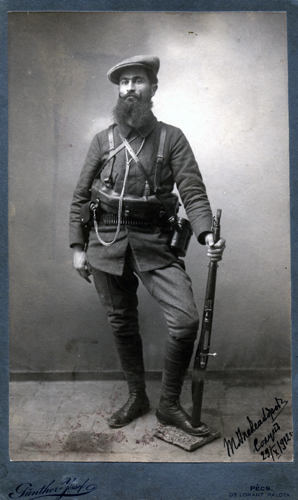 Todor Alexandrov by Günther József, 1912